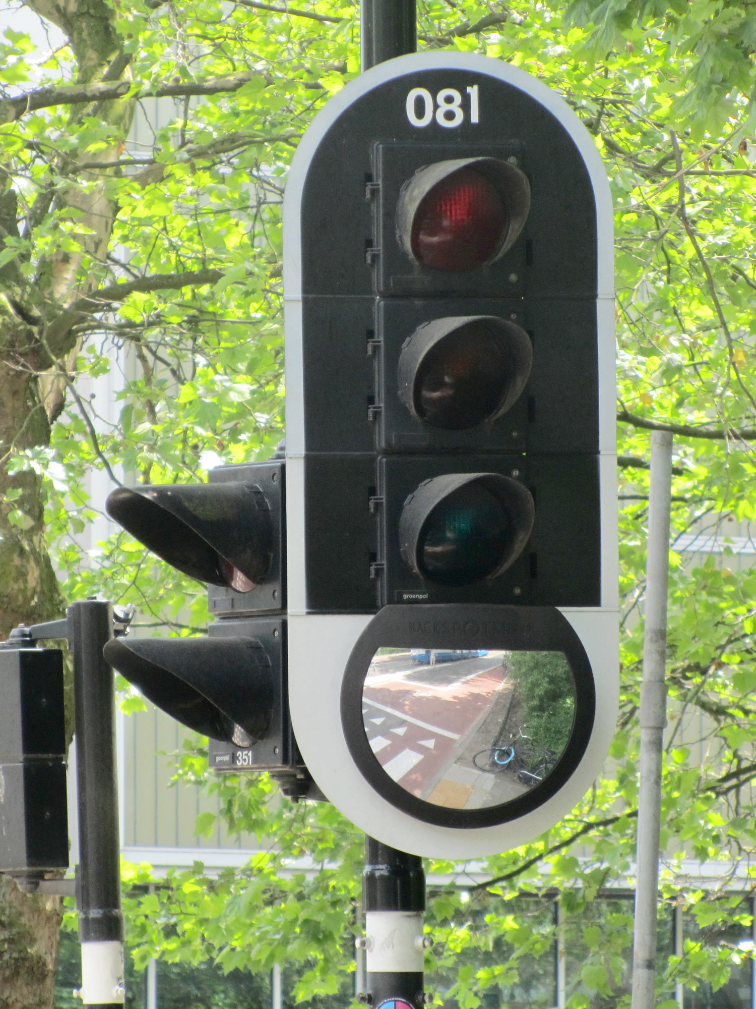 Traffic light at the corner of Nassaukade and Frederik Hendrikplantsoen in Amsterdam. Note the black spot mirror to reduce the number of traffic accidents at this location